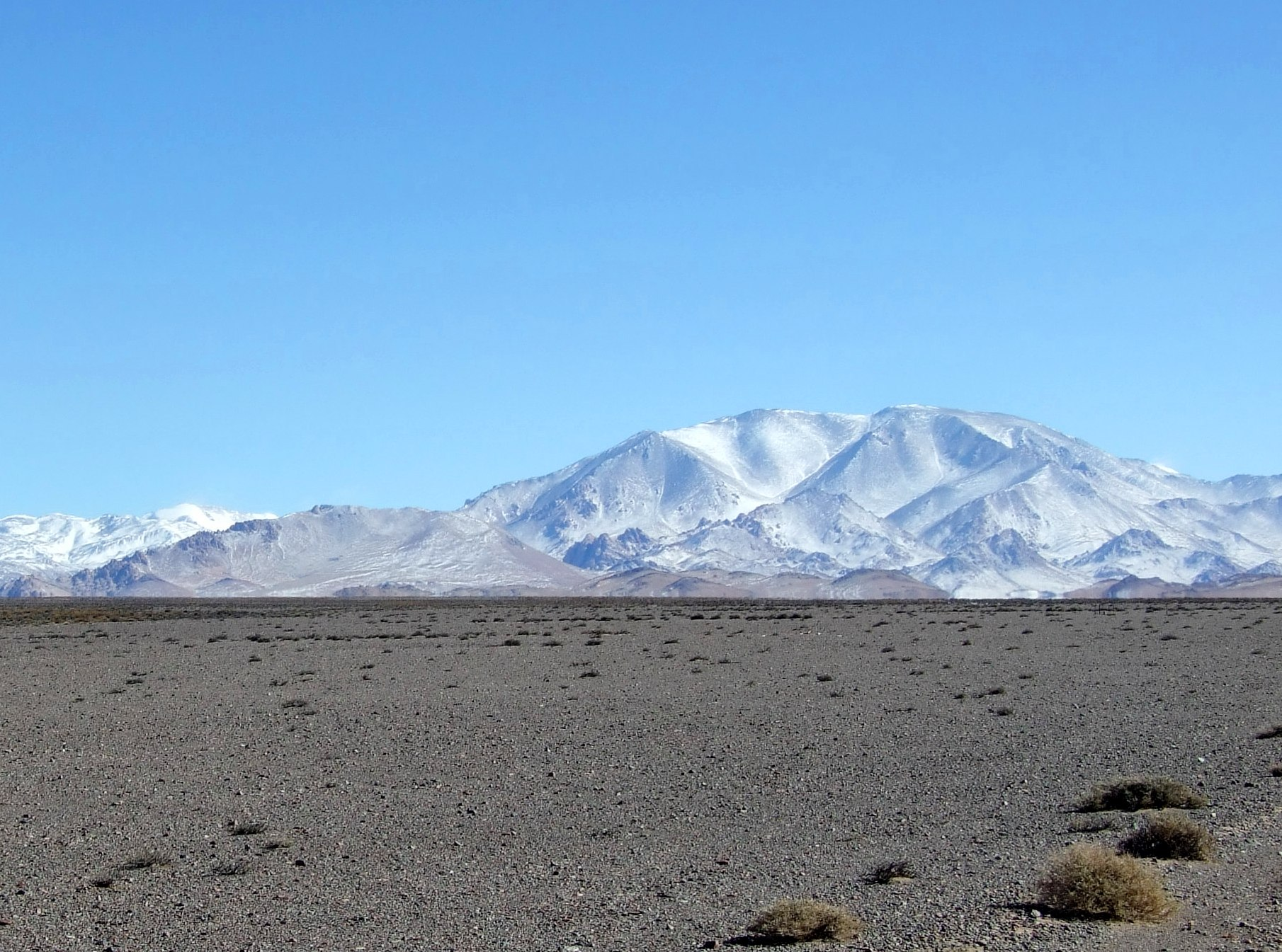 Parque Nacional San Guillermo, Departamento de Iglesia, Provincia de San Juan, Argentina